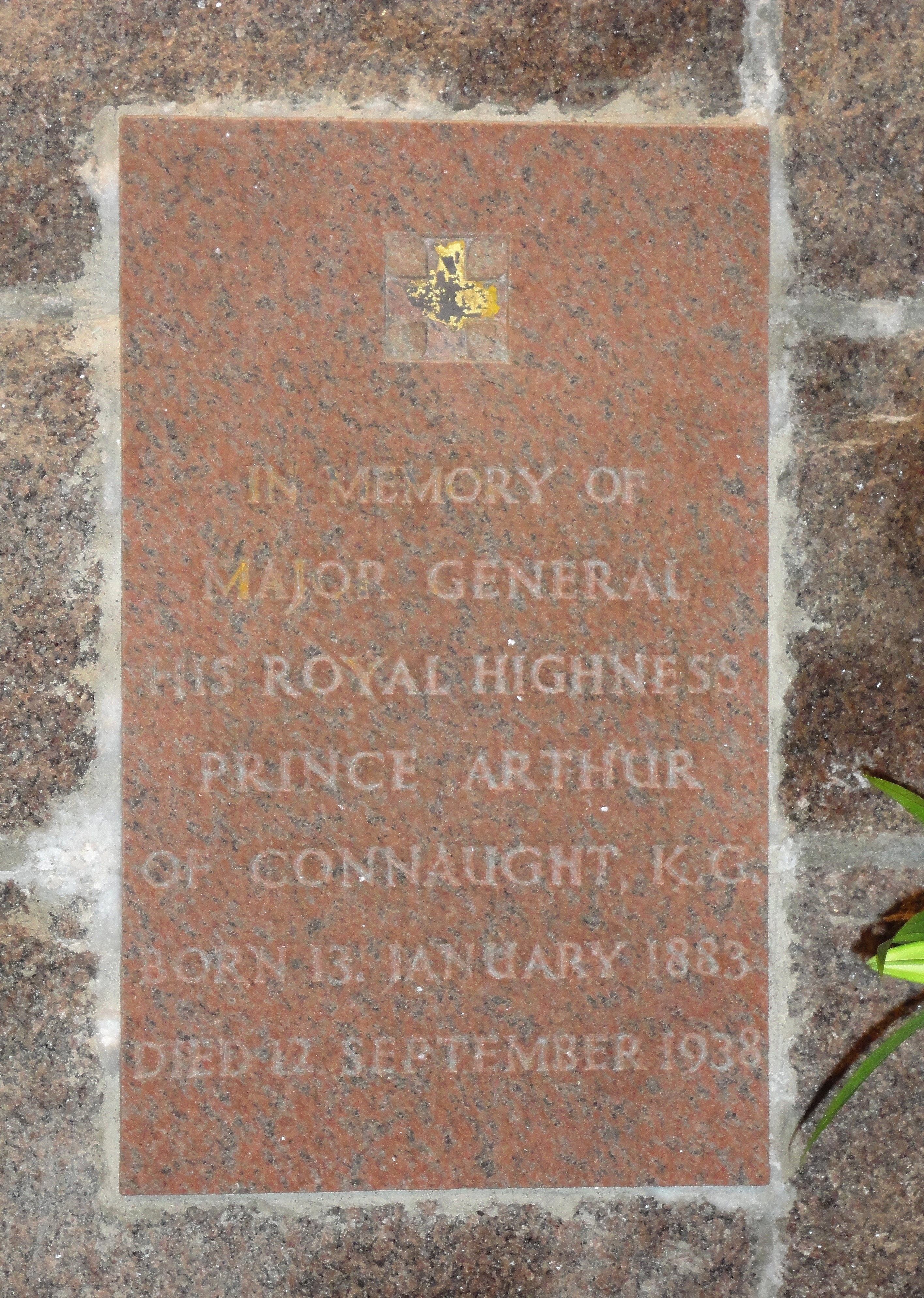 Braemar, Mar Lodge Estate, St Ninian's Chapel - wall plaque with inscription commemorating Prince Arthur of Connaught, KG, KT, GCMG, GCVO, GCStJ, CB, PC (1883–1938)